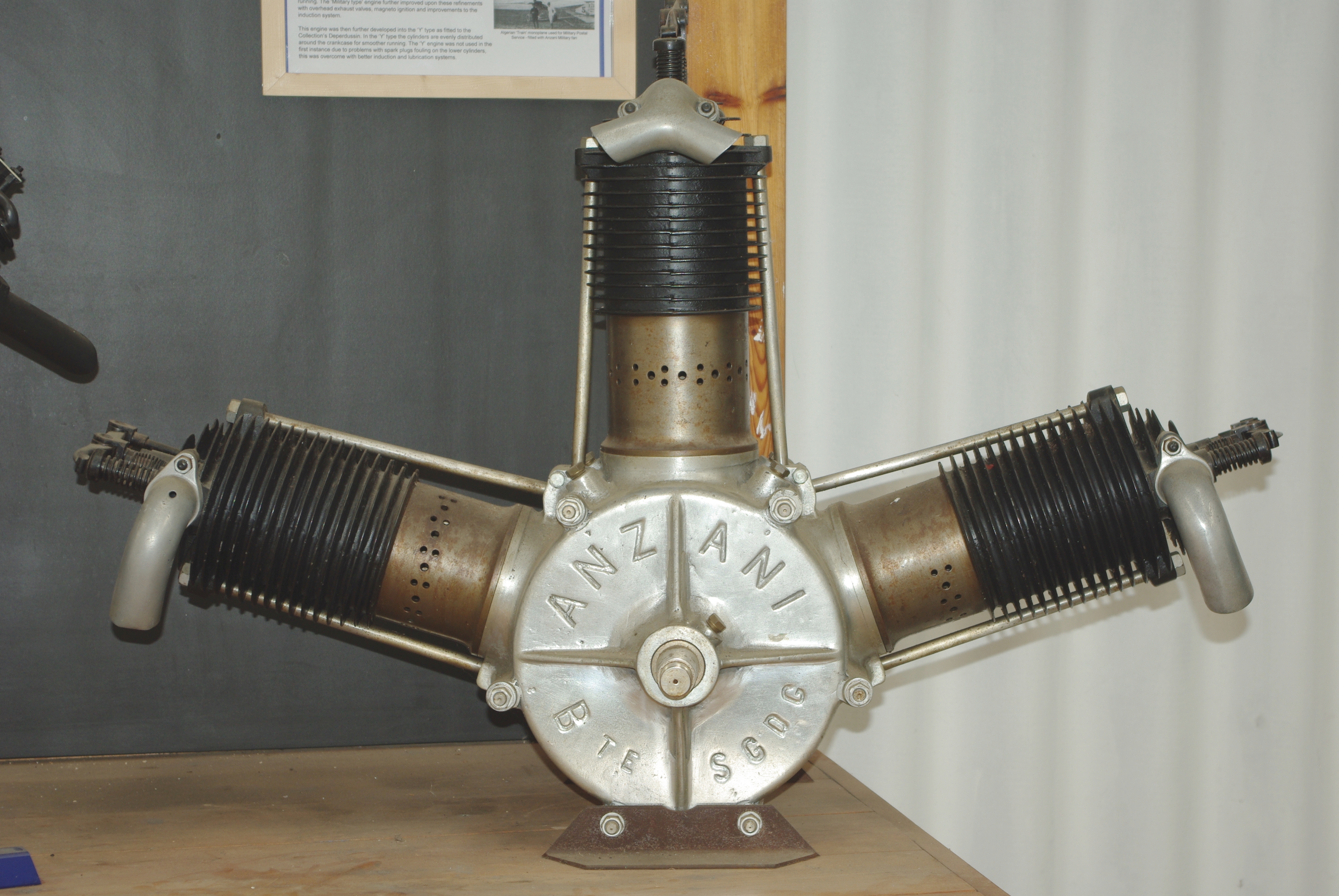 Anzani Military Model Fan type aircraft engine in the Shuttleworth Collection